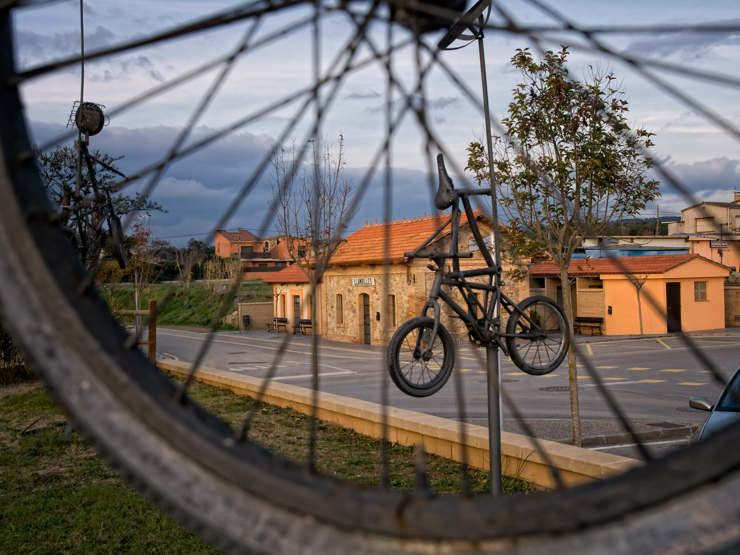 Carrilet station Llambilles (Catalonia, Spain)